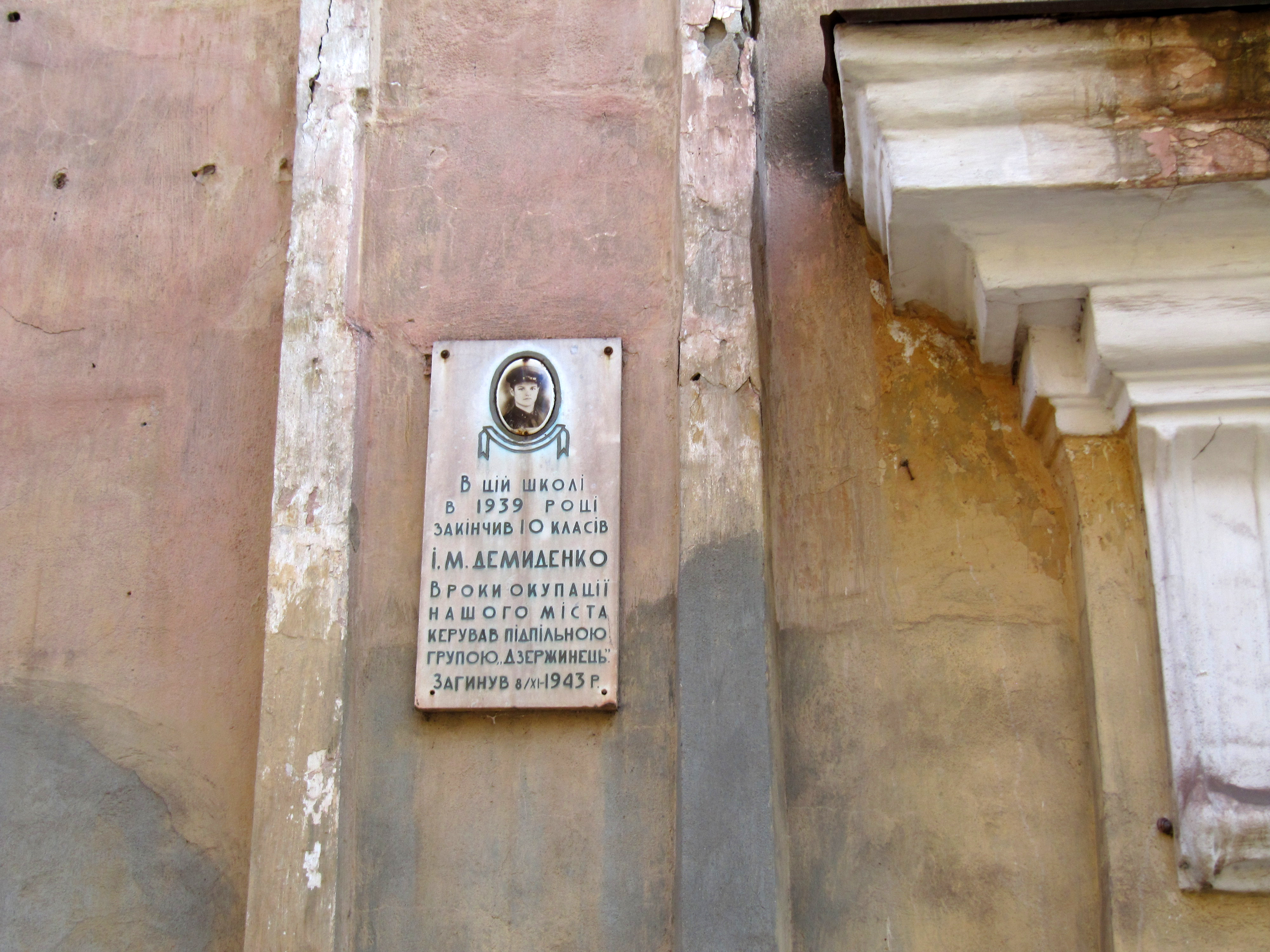 School, where studied komsomol underground fighter I.M.Demydenko. He graduated from 10 grades in 1939. Died 08/11/1943. Local historical monument, Kryvyi Rih city, Ukraine